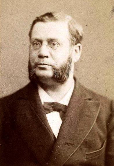 Portrait of Cornelius Marius Kan